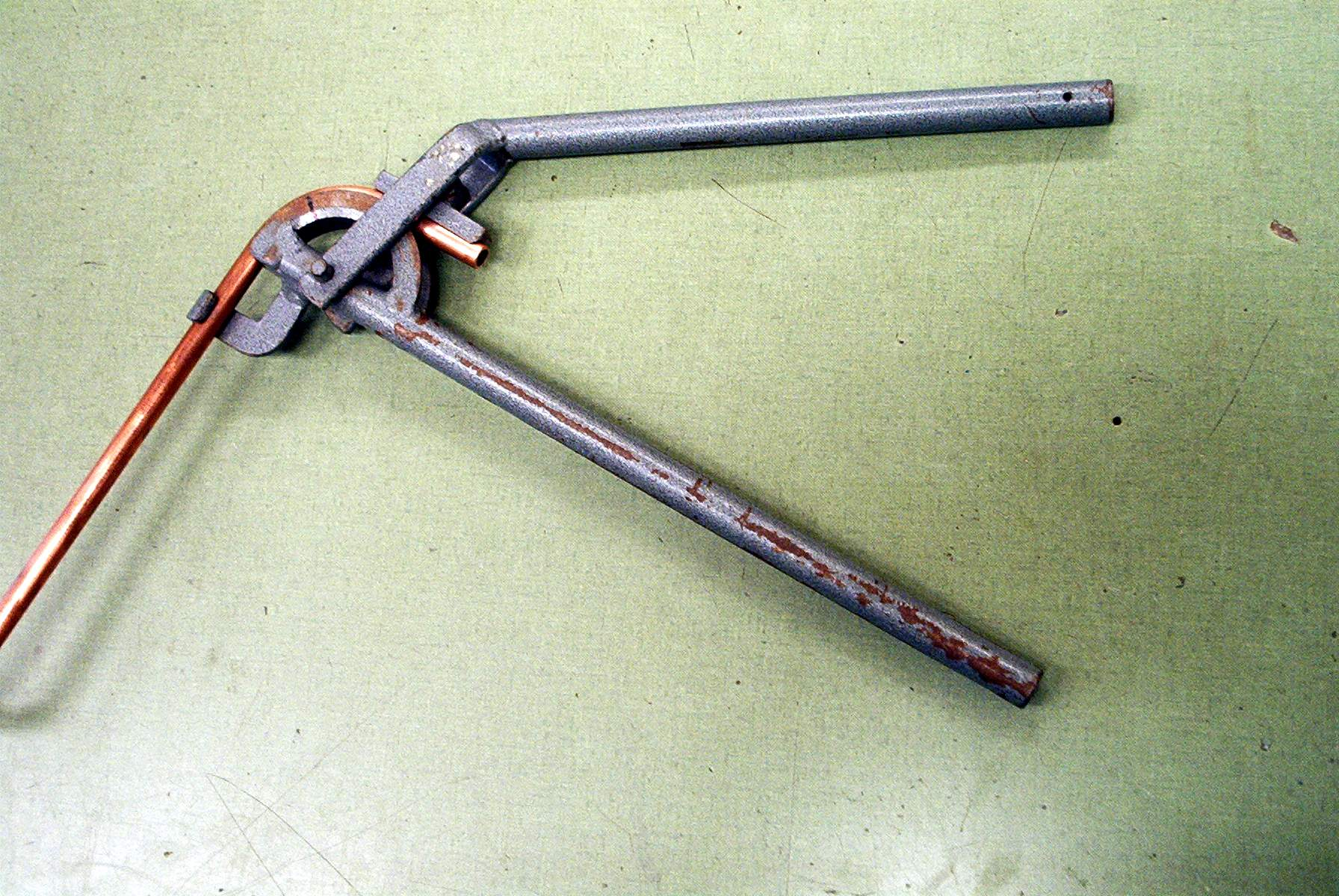 Two parts tube bender.